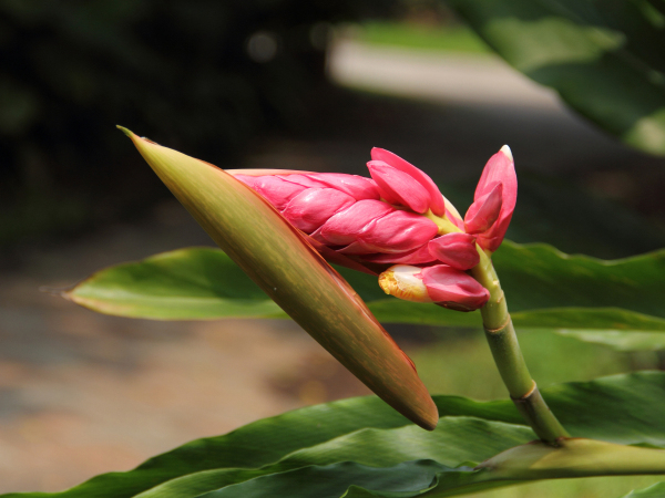 Photo place: South China biotanical Garden